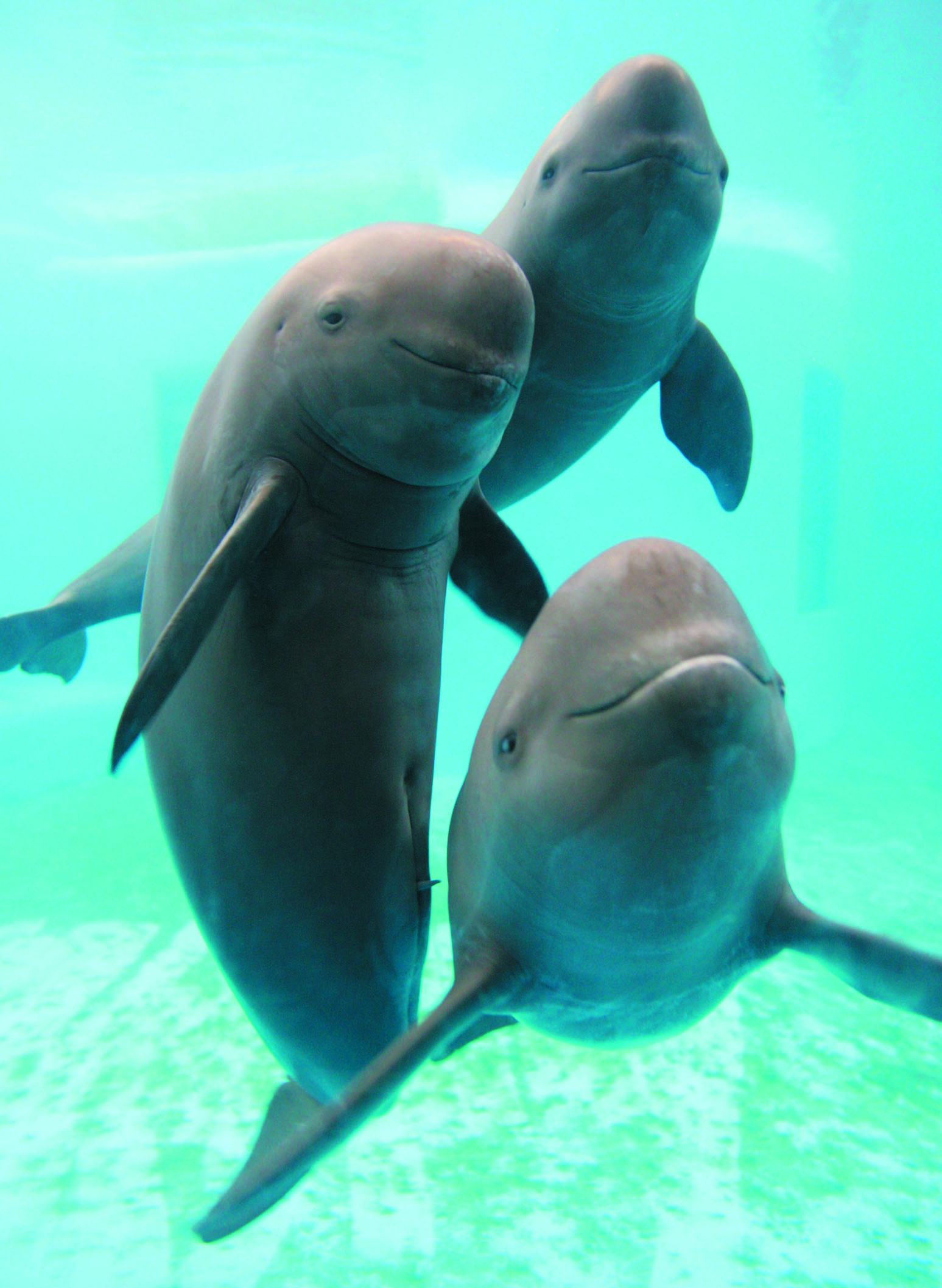 Yangtze finless porpoise in the Institute of Hydrobiology, Chinese Academy of Sciences, on 10 November 2006.